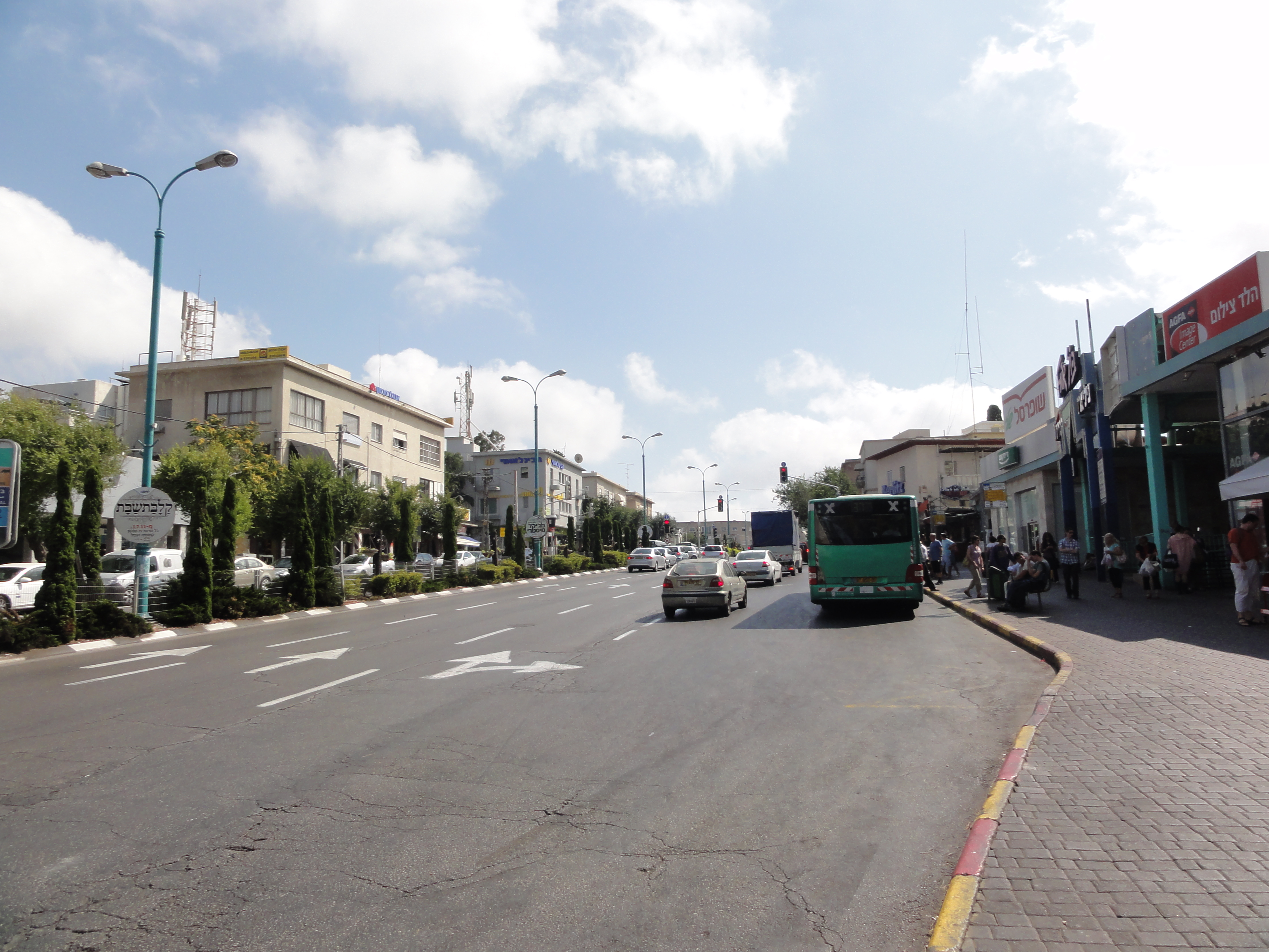 Streets in Carmel Center (Haifa, Israel).